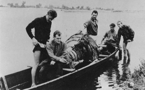 Armia Krajowa collects parts of the V-2 rocket from the Bug River.